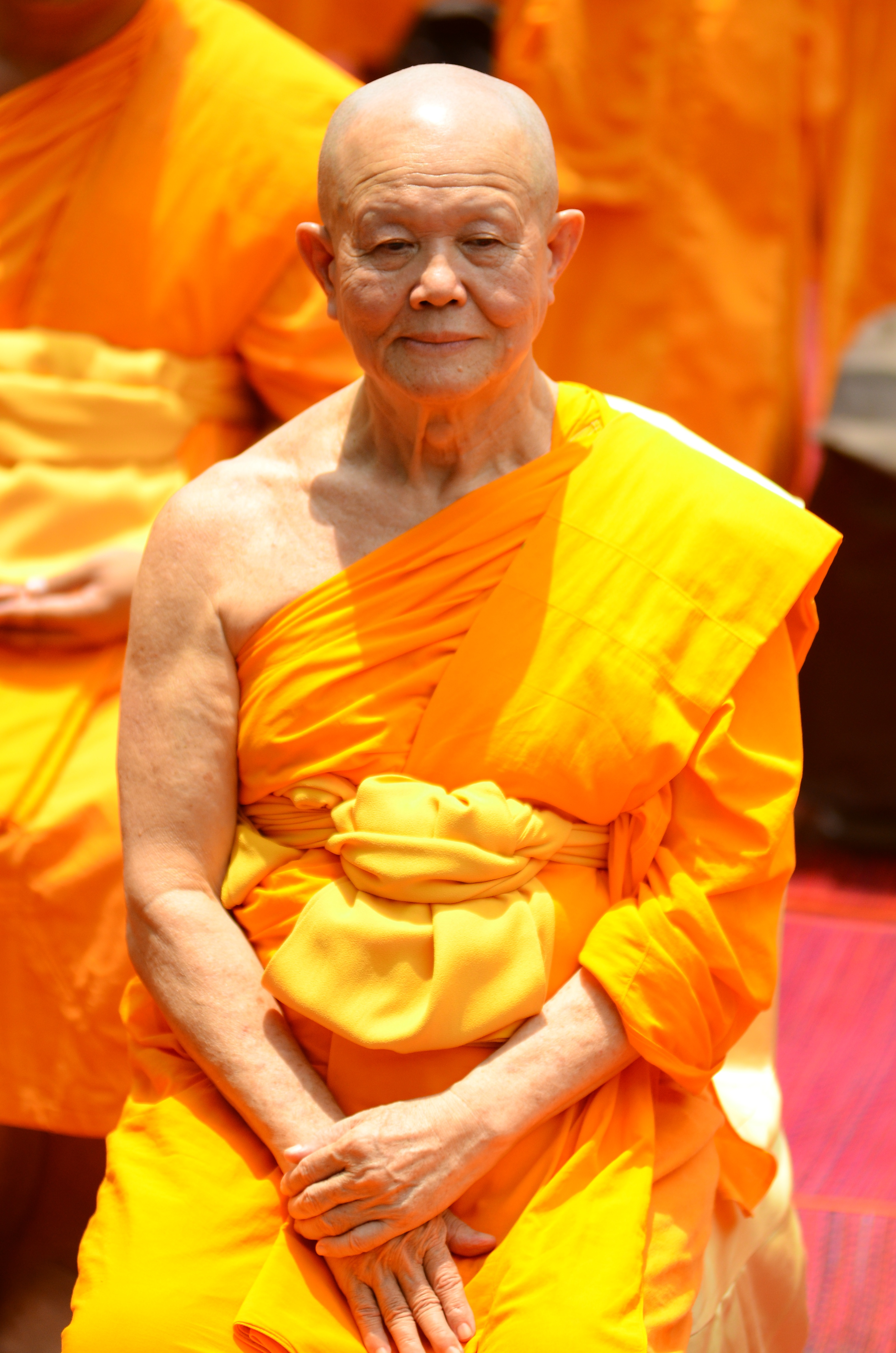 Luang Por Dattajivo sitting.